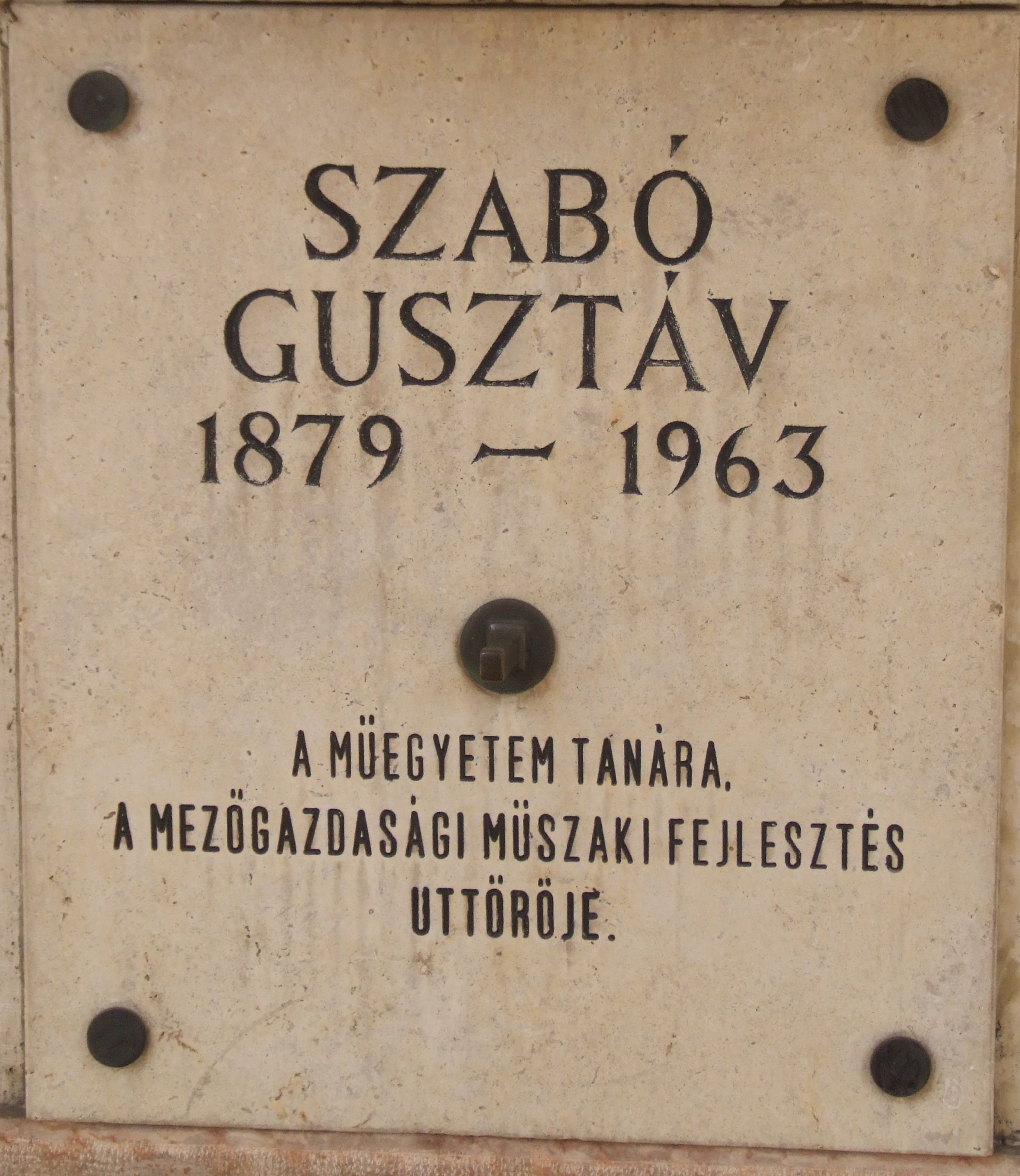 Gusztáv Szabó commemorative plaque (bust of Gusztáv Szabó by János Horváth detail) in Budapest District V, Kossuth Lajos Square No 11